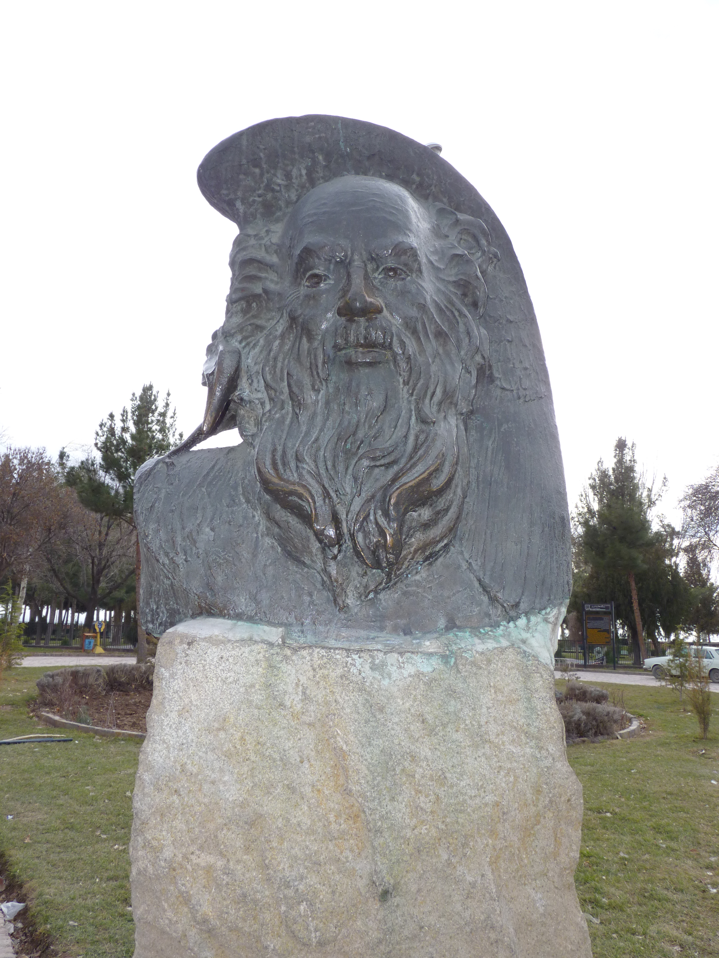 Attar's statue - Nishapur